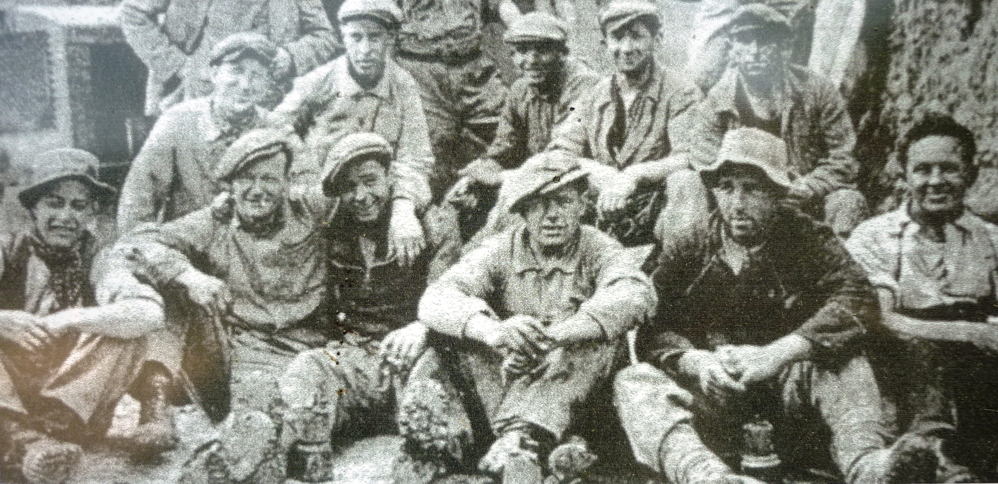 Riedhof coal mine, Aeugstertal ZH, Switzerland Bergwerk Riedhof, Aeugstertal ZH, Schweiz